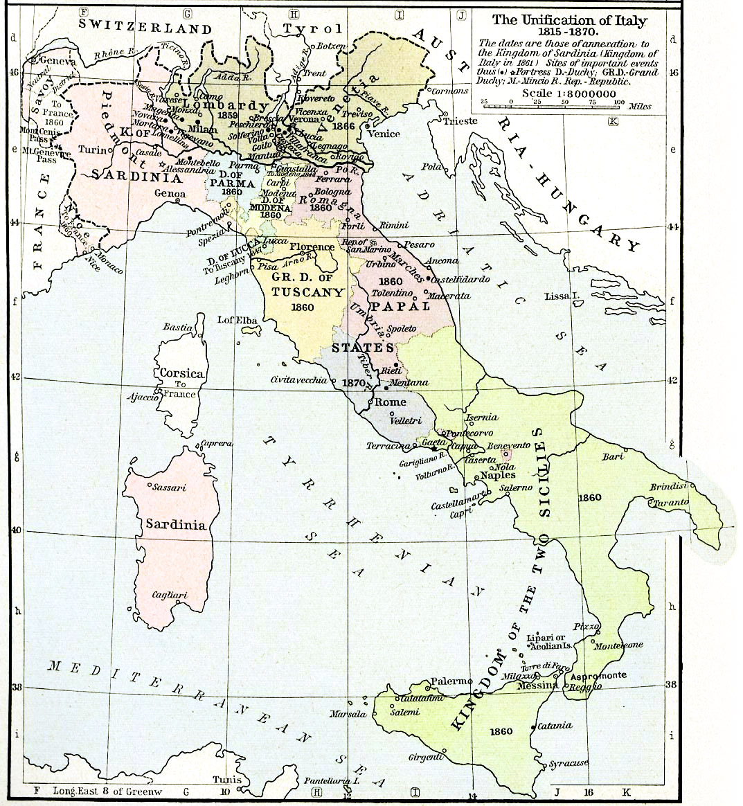 Map of unification of Italy, 1815-70